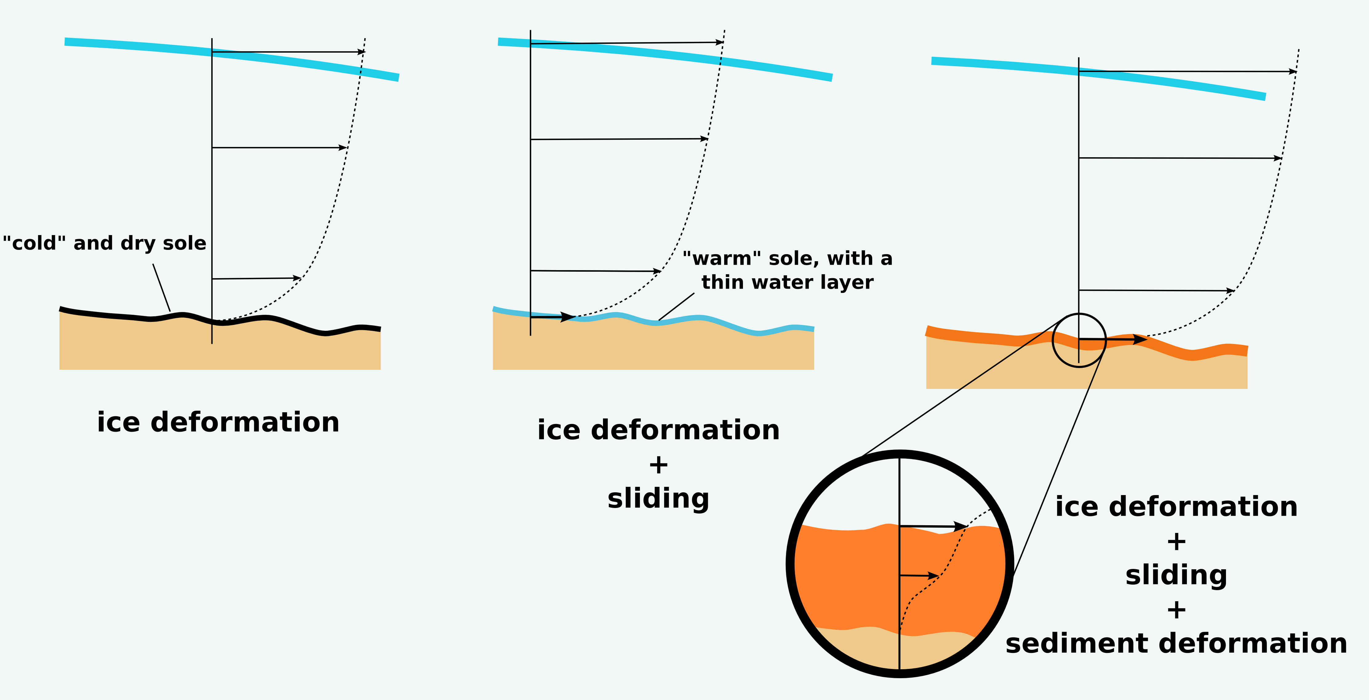 Schematic representation of the three main mechanisms involved in glacier flow: ice deformation (left), basal sliding (centre), and deformation of subglacial sediments (right).